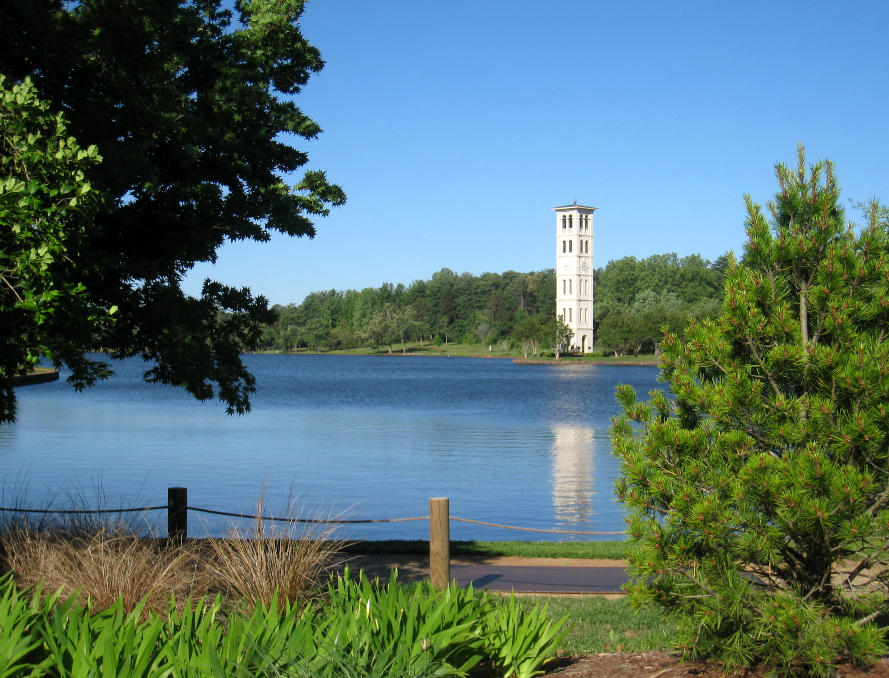 Bell Tower, Furman University, Greenville, South Carolina, USA. View of tower.